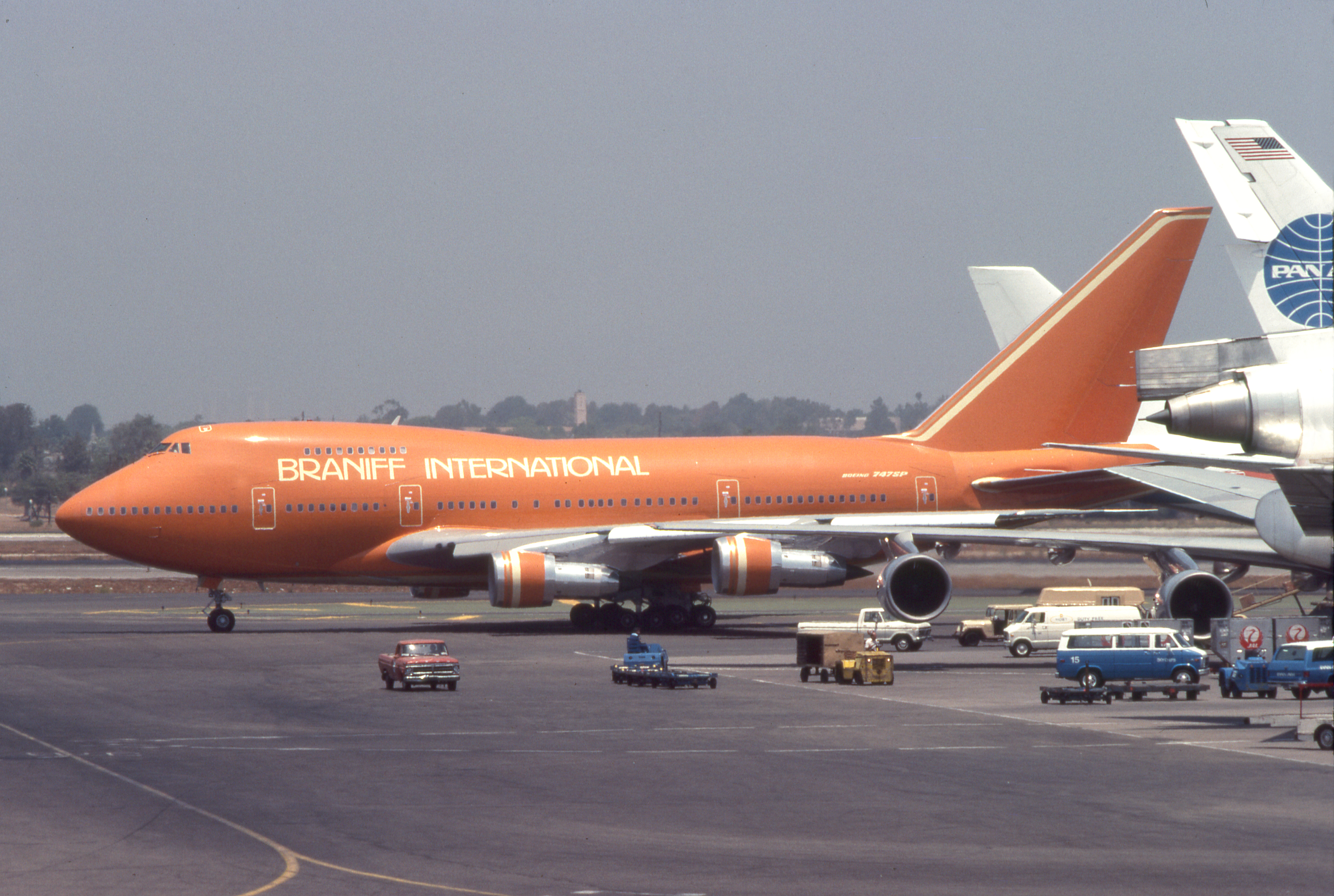 Braniff Boeing 747SP at Los Angeles International Airport